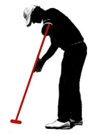 Broomstick-Putter